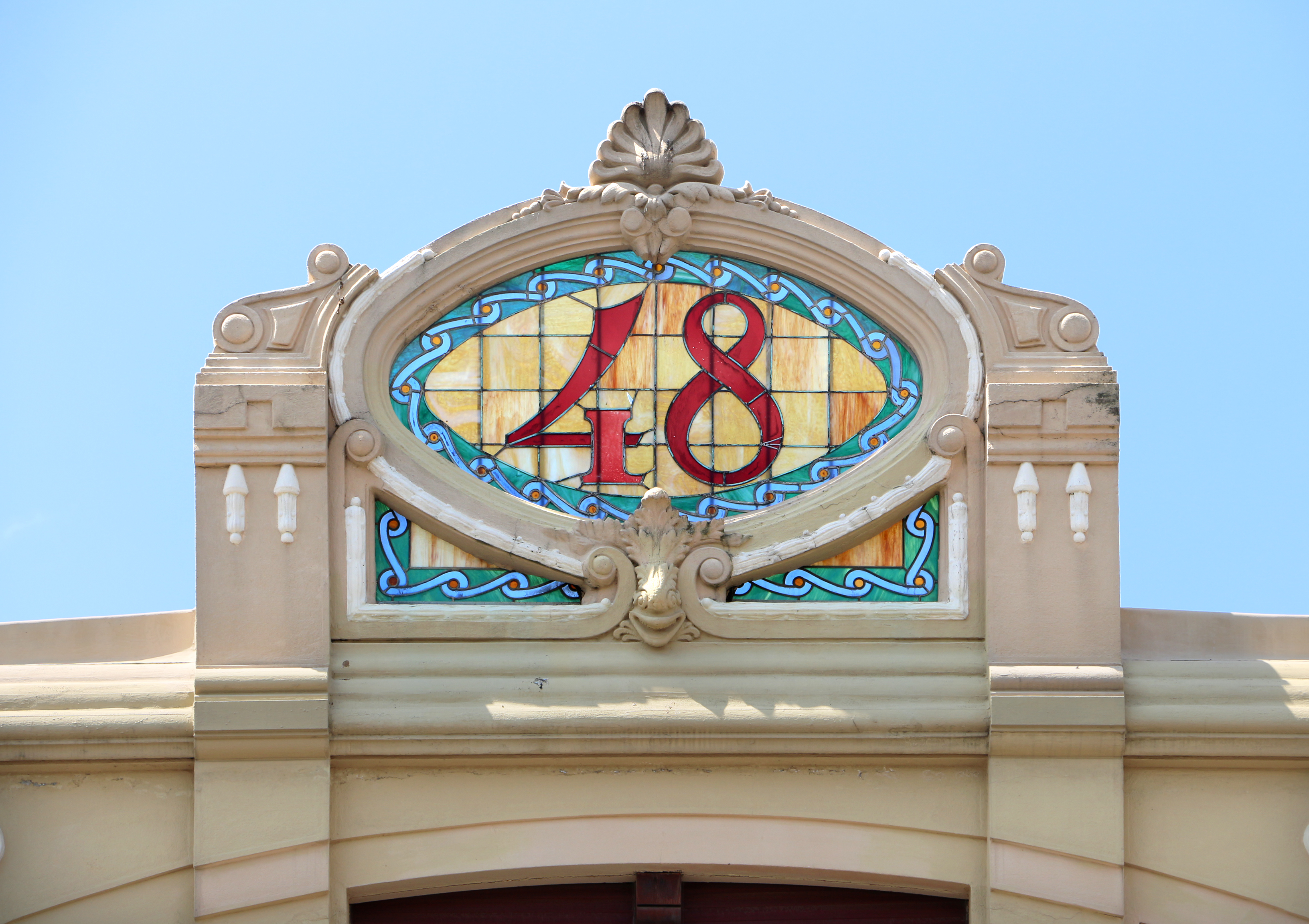 Viareggio